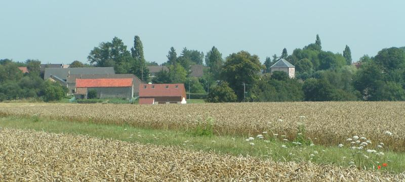 Village of Boullay-les-Troux. The picture was taken from the neighboring fields.